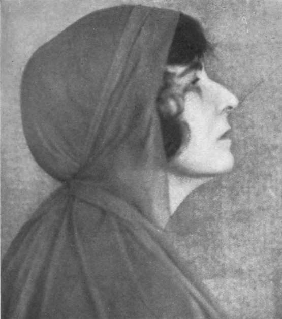 Katherine Emmet, from a 1918 publication. A white woman in profile, wearing a veil over her head and shoulders, but not her face or neck.